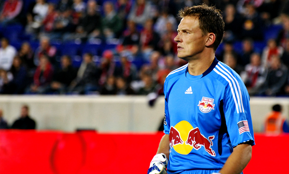 German goalkeeper Frank Rost against the Portland Timbers in 2010.